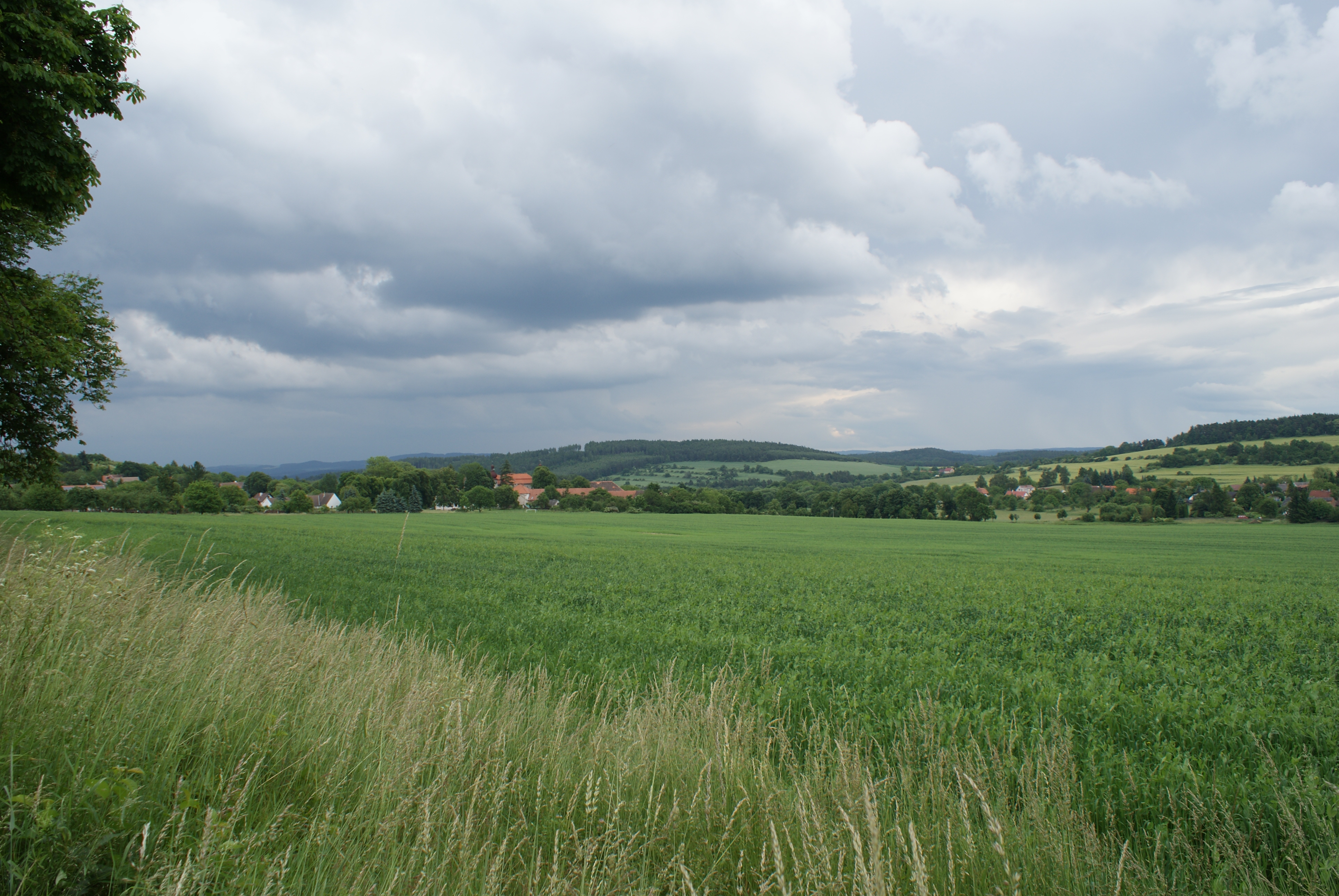 Bukovany, a village in Příbram district, Czech Republic, general view. Česky: Bukovany, okres Příbram